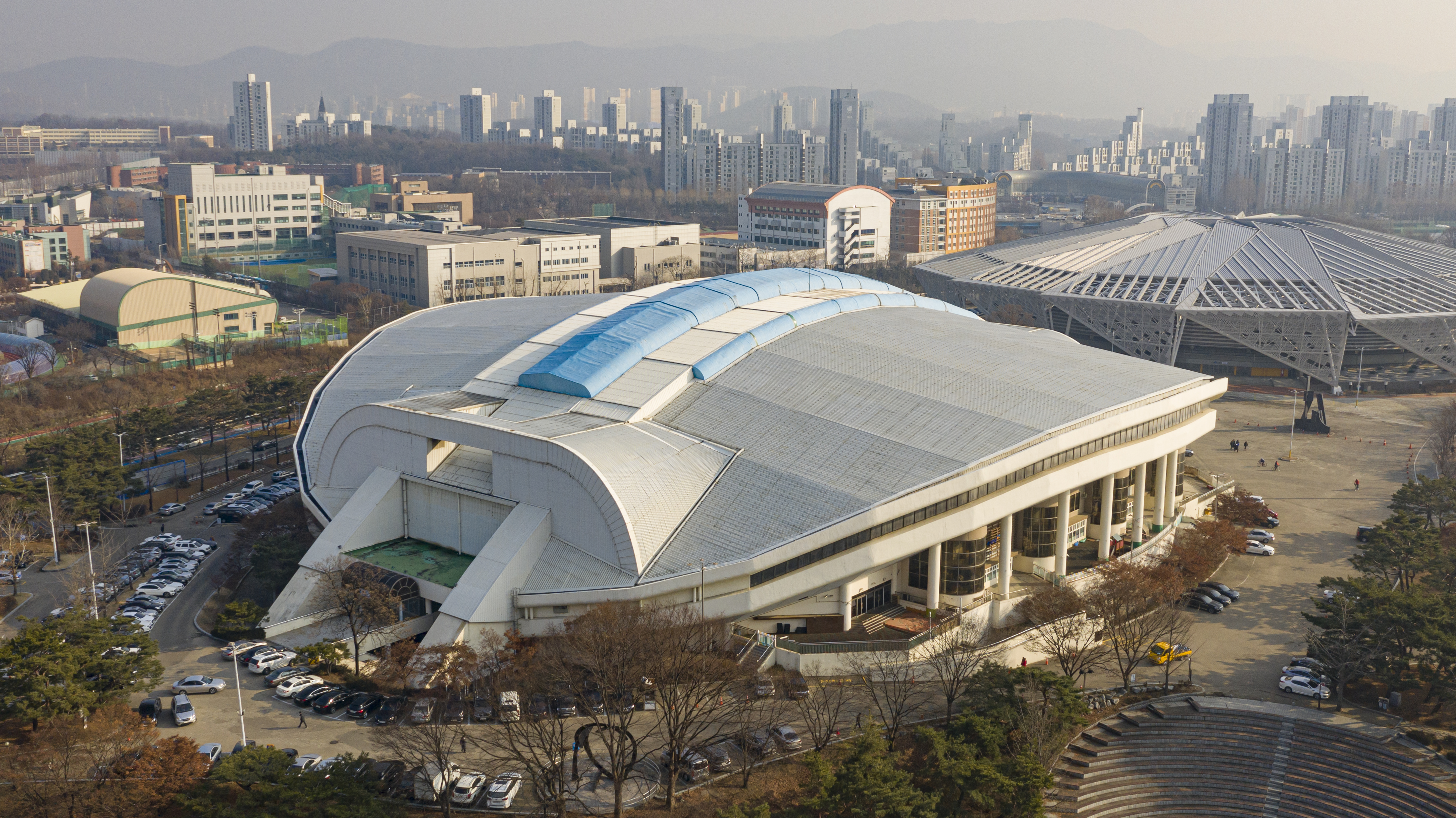 Olympic Swimming Pool, Seoul, South Korea